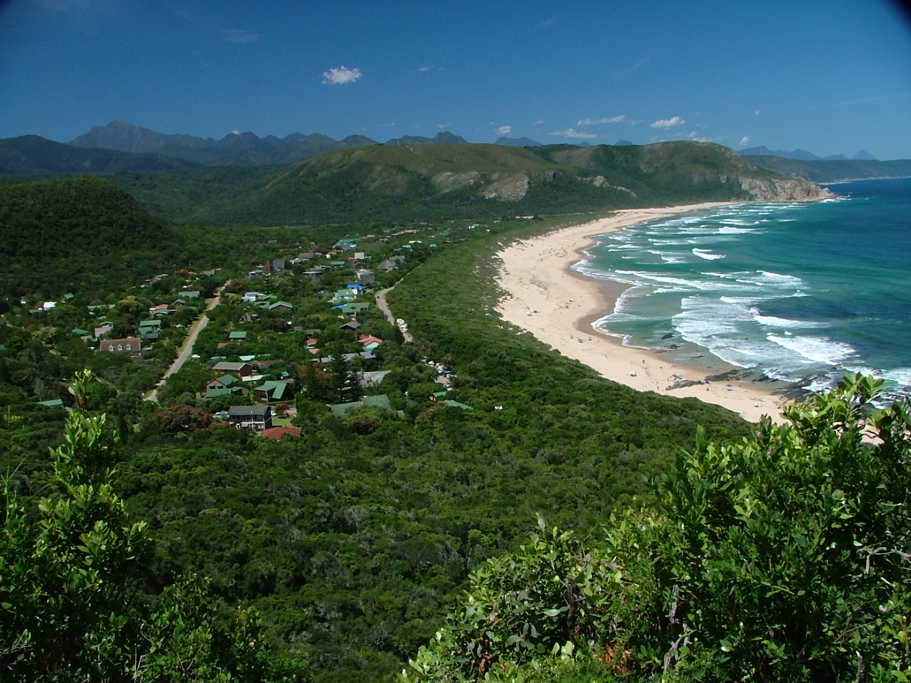 Nature's Valley in South Africa with the Tsitsikamma Mountains in the background. own image Paul venter 06:37, 14 November 2006 (UTC)